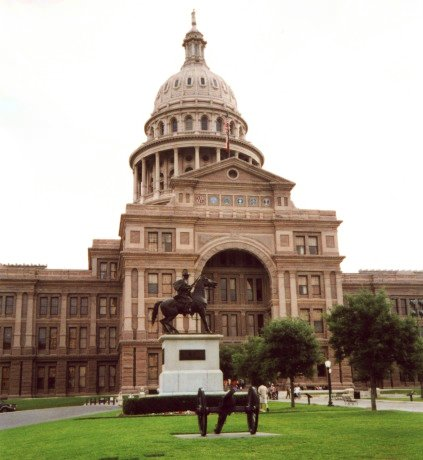 Texas state capitol in Austin, Texas. Taken in May, 2001.